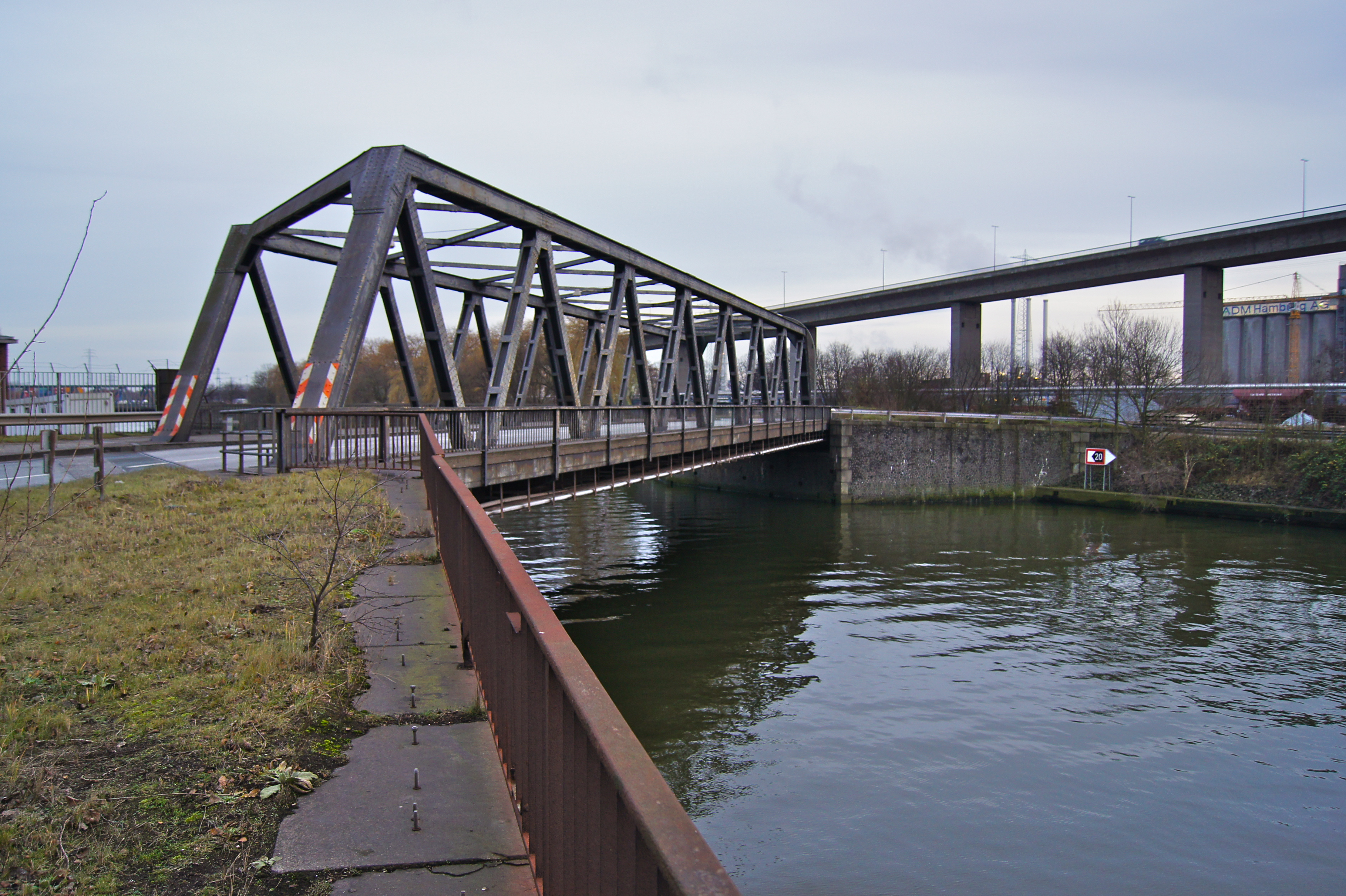 Hamburg (Steinwerder), Germany: The Howaldbridge over the Rosskanal